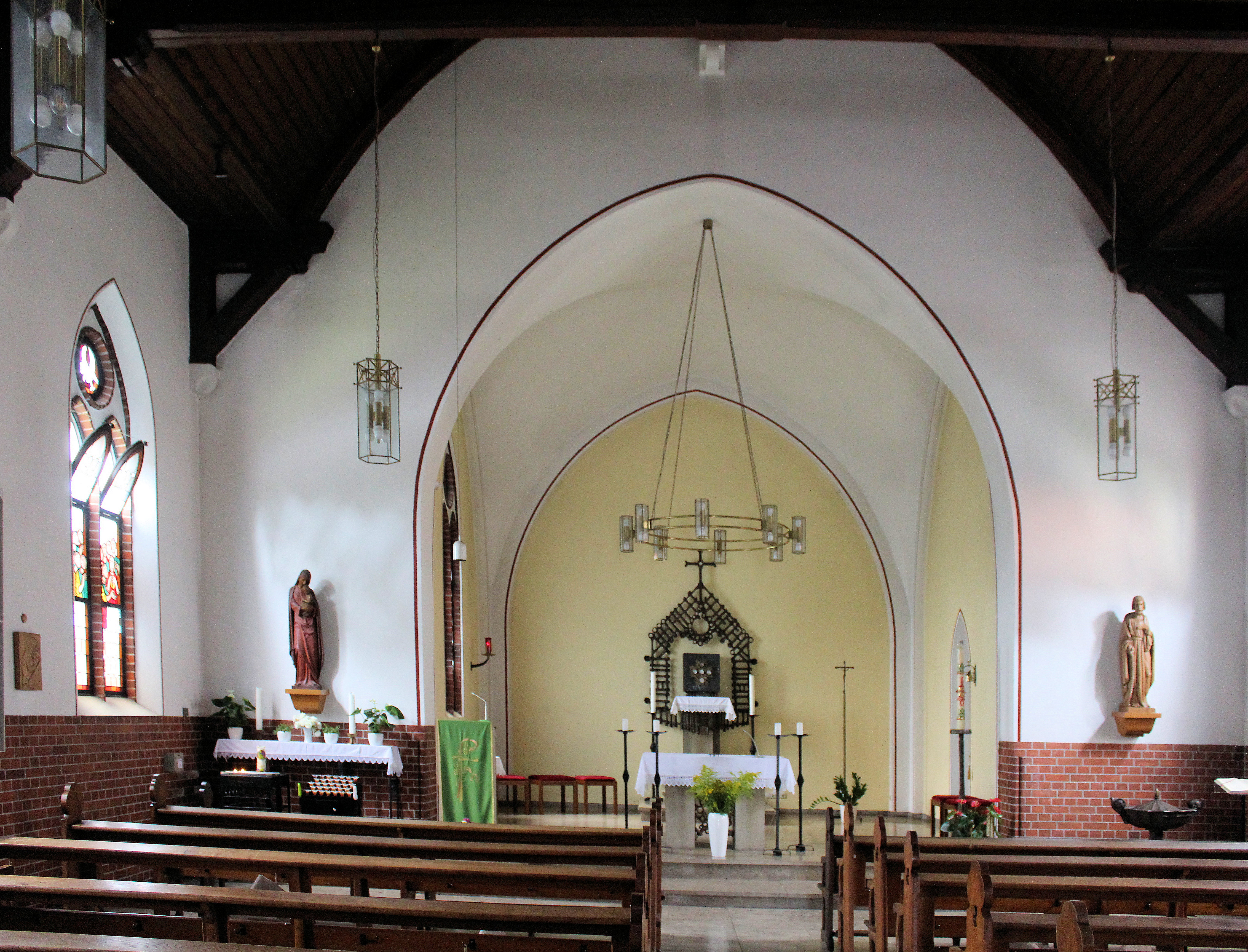 Lüchow (Wendland), Saint Agnes church, inner view